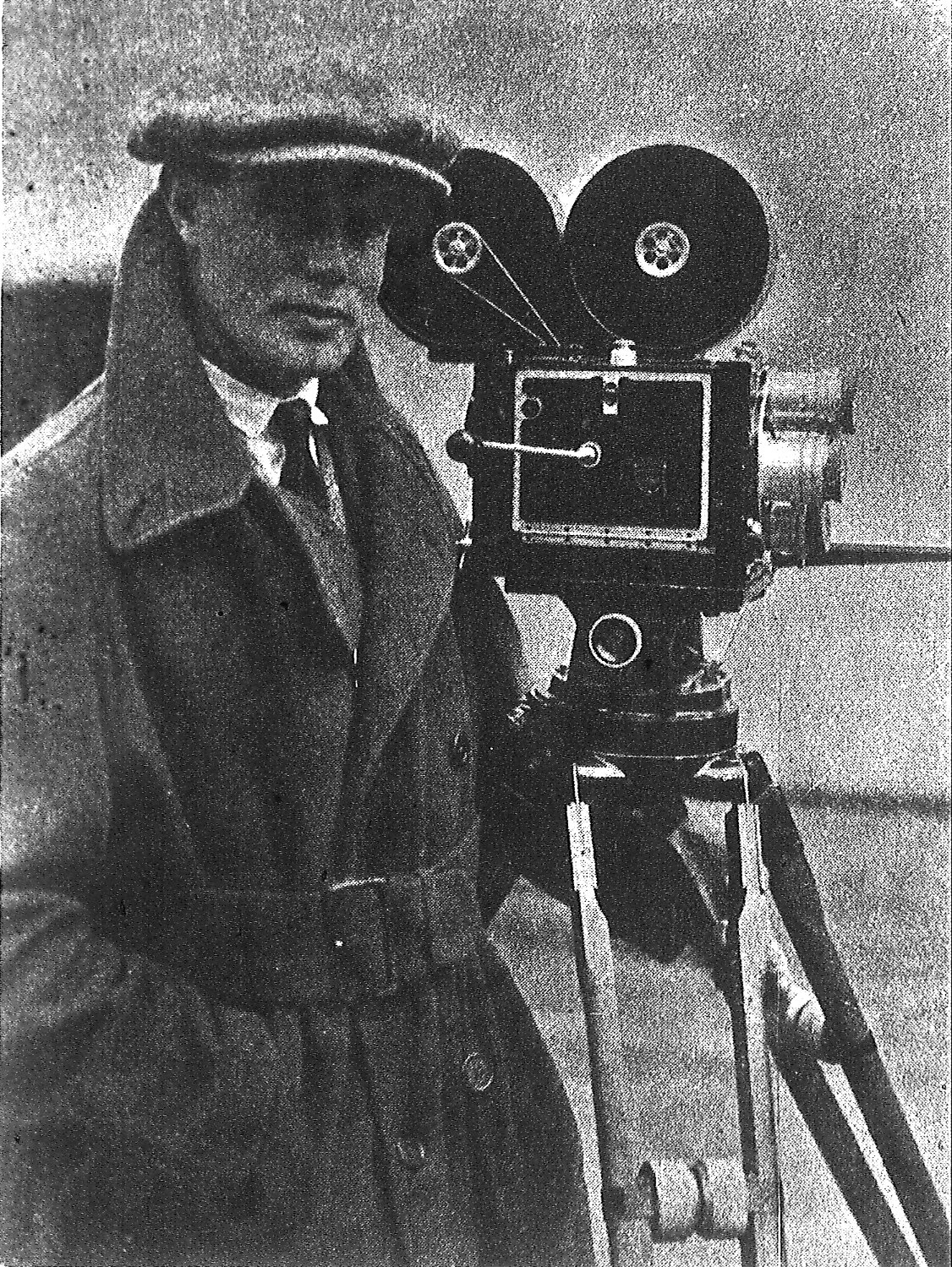 Original caption: "James C. Van Trees, A.S.C. With His New Mitchell Camera"